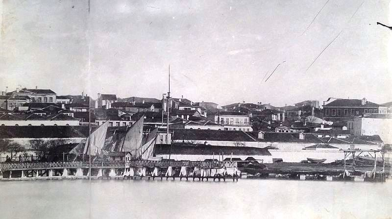 Panoramic photos of Varna after the Liberation.